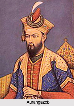 The portrait of great emperor.